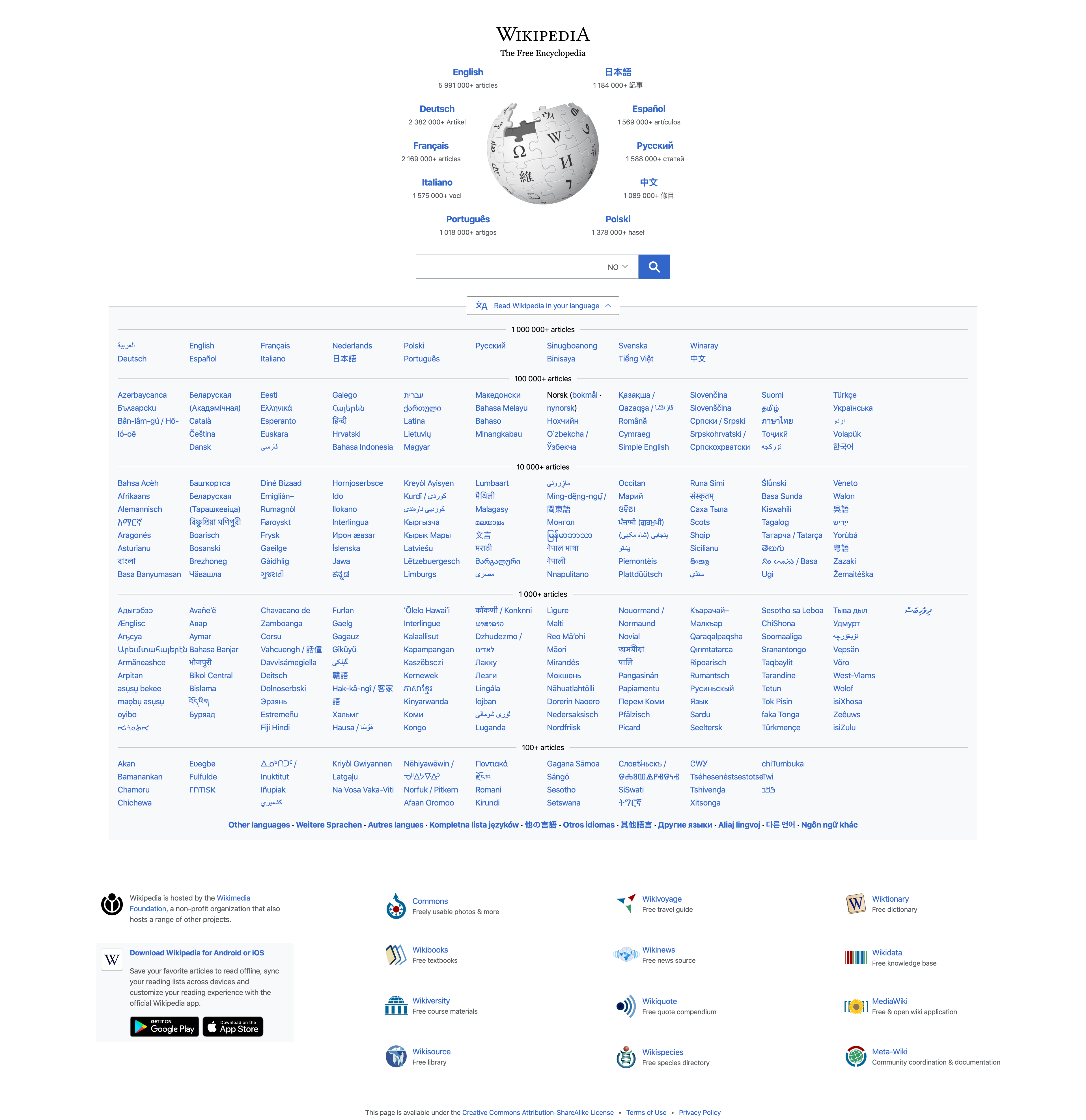 Wikipedia portal screenshot